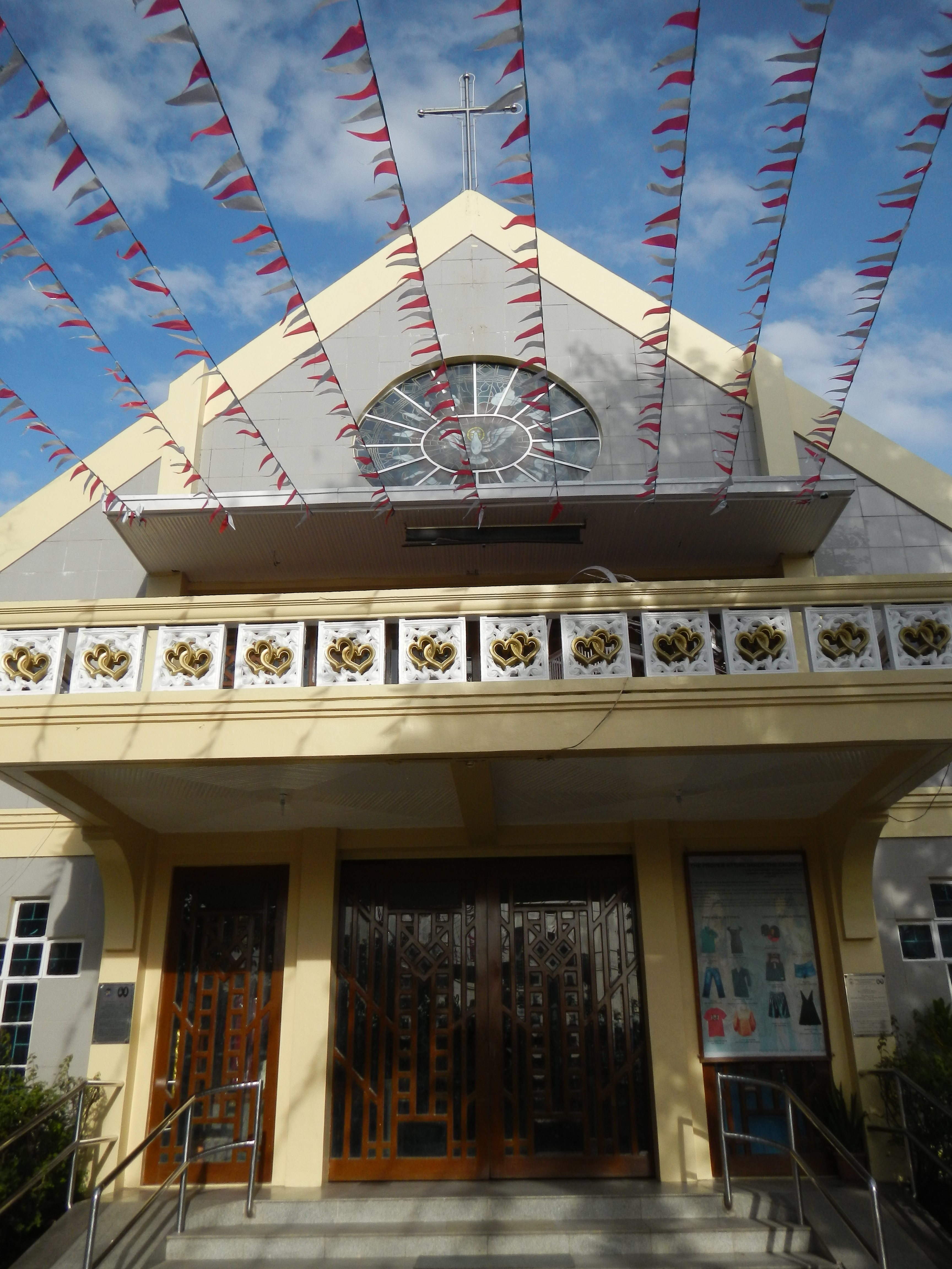 Upload Wizard photos of - a) Bustos, Bulacan Minasa Festival [1] Minasa Festival Exhibit, SM City Baliwag[2], b) Valenzuela, Philippines [3] Philippines Crossing, Junction, Intersection of MacArthur Highway[4] Barangay Malanday, Valenzuela [5] Hearts of Jesus and Mary Parish Church of Malanday, towards Barangay Poblacion and Polo, Valenzuela[6].